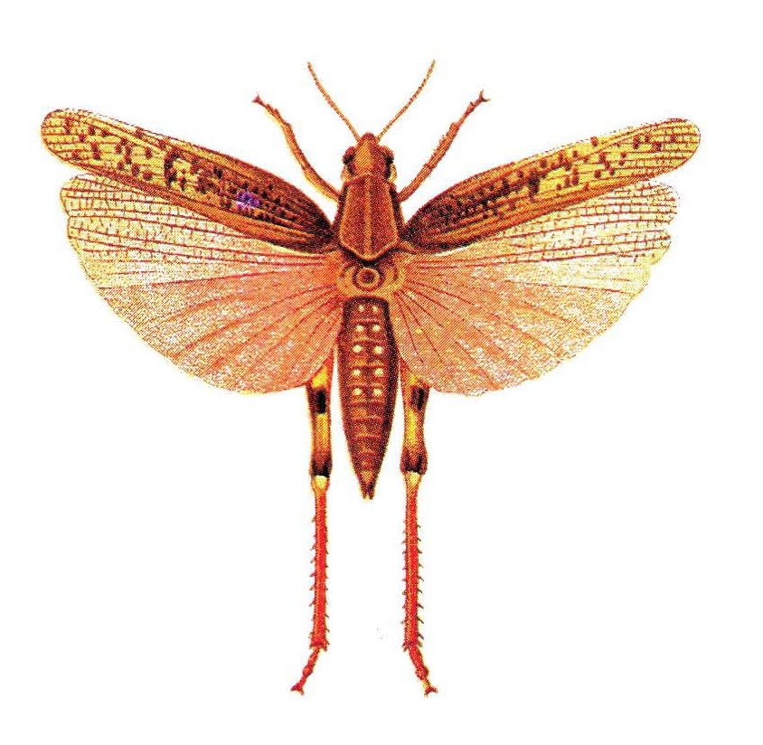 Calliptamus italicus, Italian Locust. Image extracted from file File:Brockhaus and Efron Encyclopedic Dictionary b56 402-0.jpg